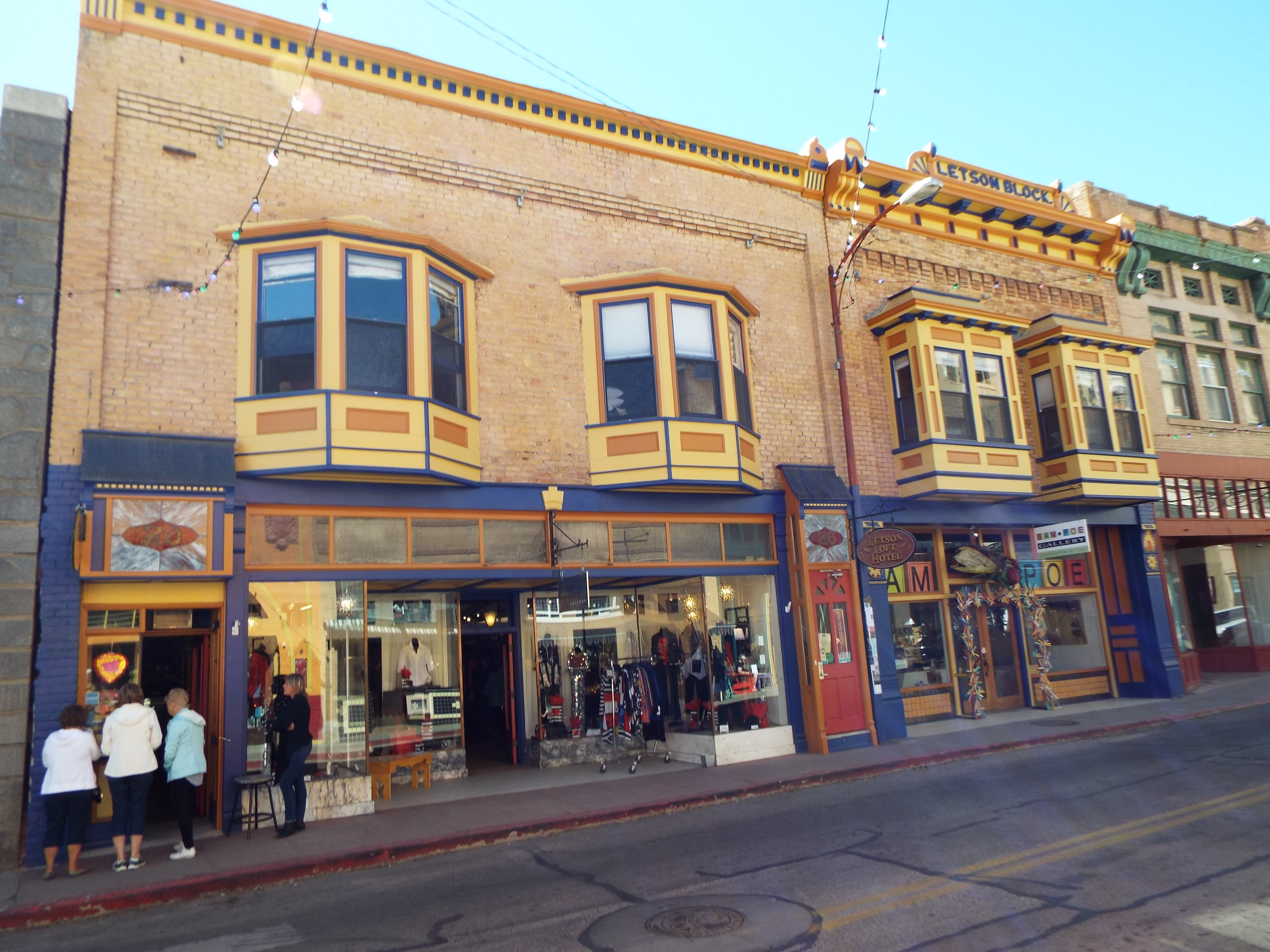 The Letson Loft Hotel (Letson Loft Block) was built in 1883 and is located on 26 Main Street, Bisbee, Az. It was originally known as the Goldwater-Castaneda Mercantile Store. On December 8, 1883, Daniel “Big Dan” Dowd, Comer W. “Red” Sample, Daniel “York” Kelly, William “Billy” Delaney and James “Tex” Howard held up the Goldwater-Castaneda Store. A gunfight between the thieves and the citizens of Bisbee took place on Main Street in front of the store leaving four people dead in what is known as the infamous "Bisbee Massacre". The building is listed in the National Register of Historic Places in July 3, 1980, as part of the Bisbee Historic District, reference #80004487.